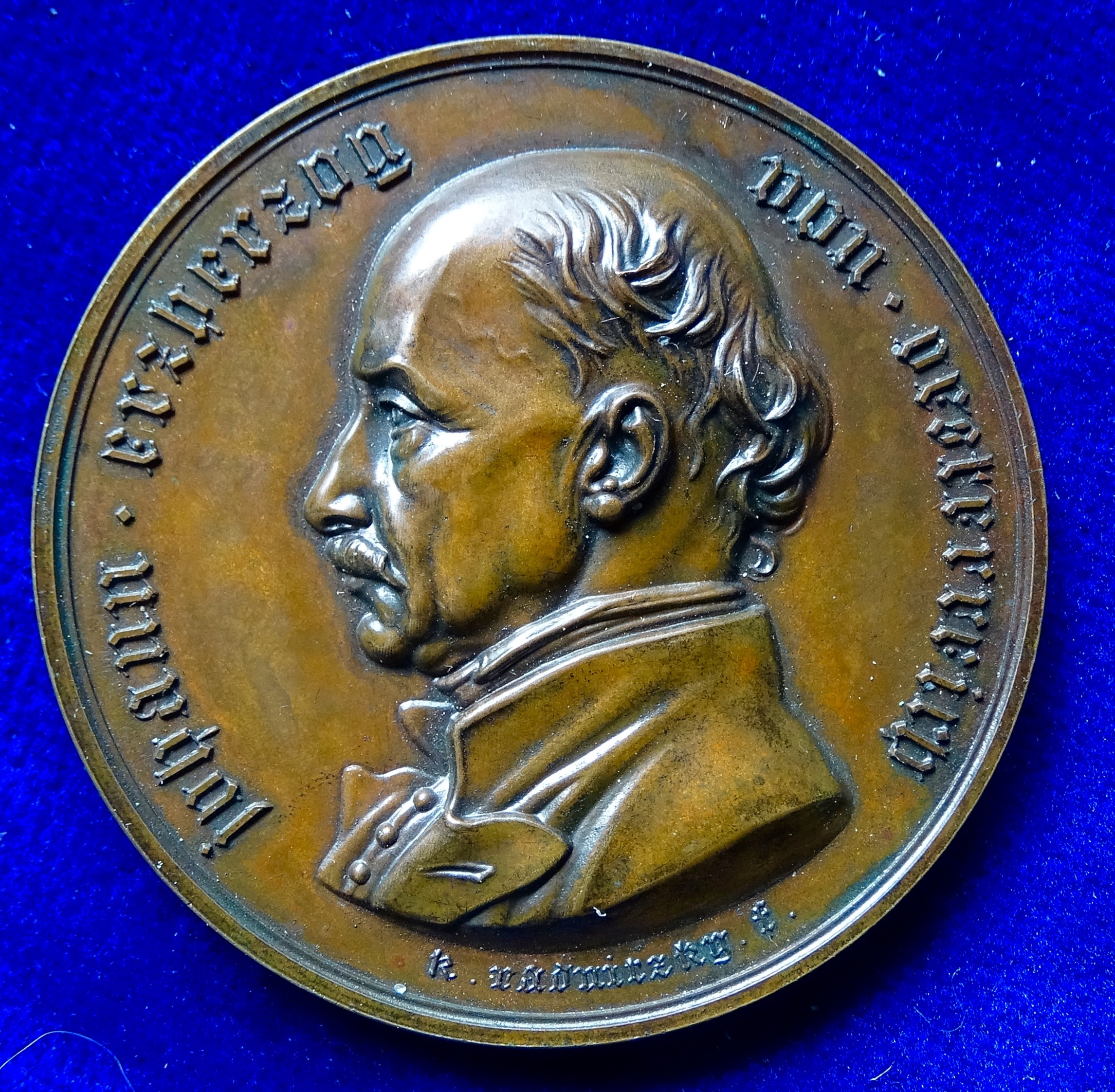 Bronze medallion d.= 43 mm. Commemoration of the election of the German Imperial Regent by the Frankfurt Parliament after the March Revolution of 1848. Archduke John of Austria (German: Erzherzog Johann Baptist Joseph Fabian Sebastian von Österreich) 1782 Florence, Grand Duchy of Tuscany – 1859 Graz, Styria, Austrian Empire, a member of the House of Habsburg, German Imperial Regent (Reichsverweser) during the Revolution of 1848-1849. Portrait l., around: "johann · erzherzog von · österreich"/ Imperial Eagle surrounded by: "* erwaehlter · deutscher · reichsverweser · xxix · iuni · mdcccxxxxviii *" J & F 1144. Medallist: K. (Karl) Radnitzky, Bildhauer und Medailleur in Wien, 1818 Wien - 1901 Vienna, Austria. Condition : Beautifully toned EXTREMELY FINE+